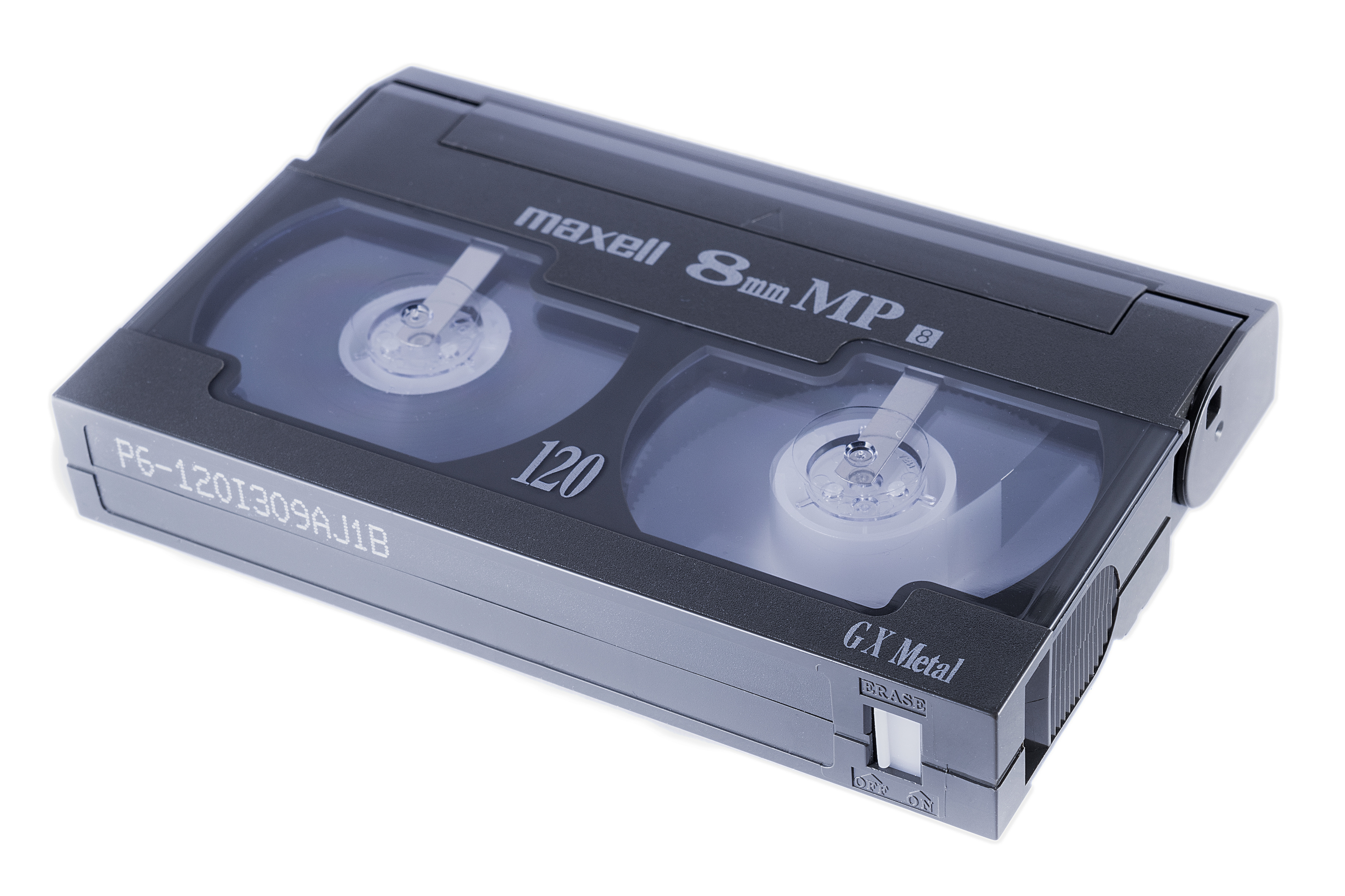 Image of 8mm video cassette